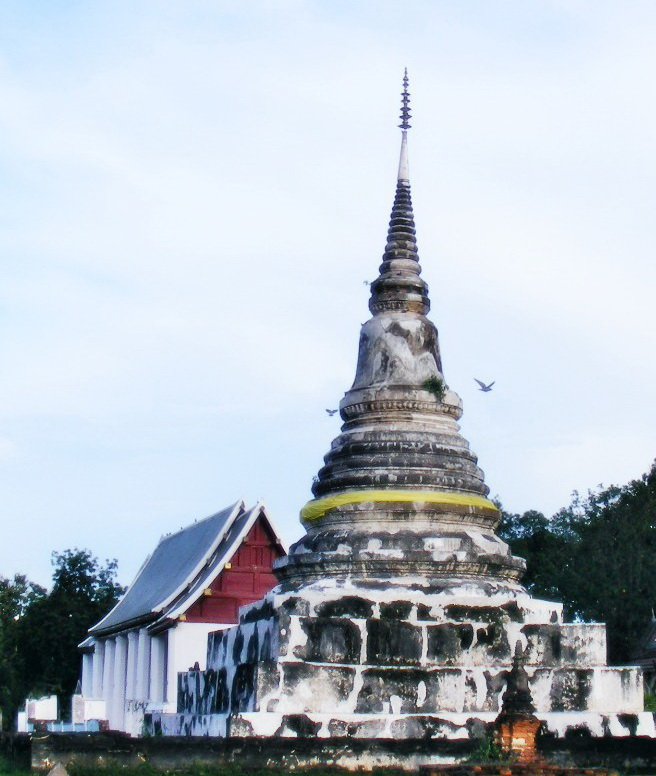 stupa of Wat Phra Fang temple Location: Wat Phra Fang (Wat Phrafangsawangkabureemuneenat) Ban Phra Fang, Pha Juk subdistrict, Mueang Uttaradit, Uttaradit Province, Thailand.